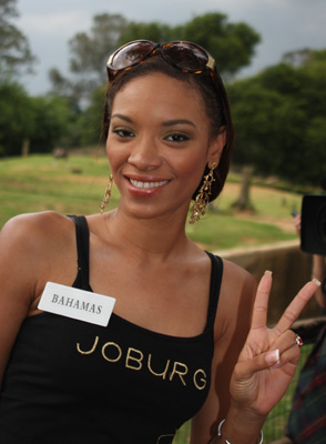 Miss Bahamas 2008 Tinnyse Johnson during Miss World 08